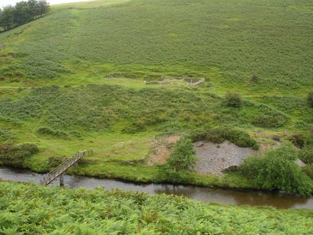 Wheal Eliza Ruin of C19th iron mine.